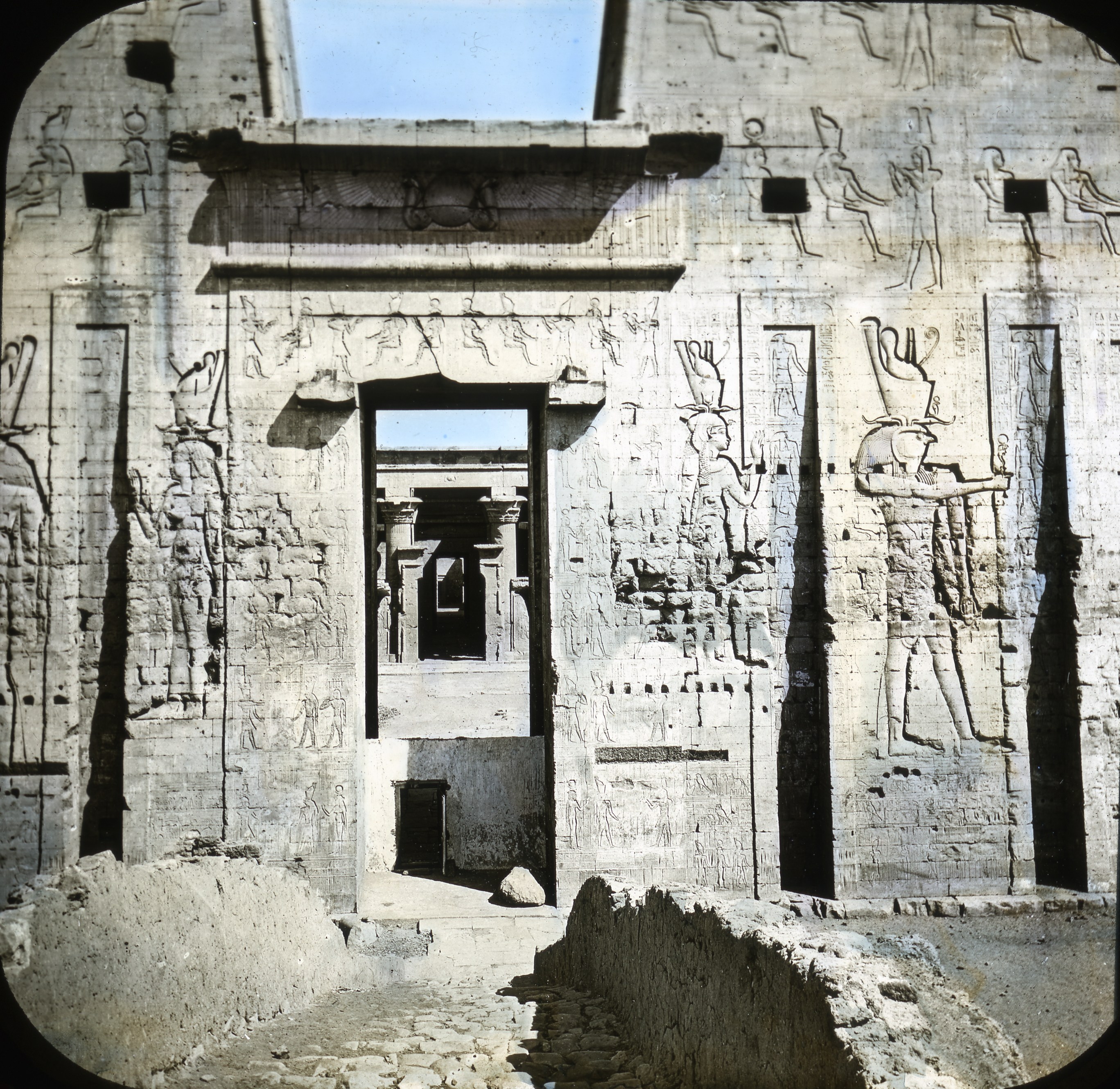 Lantern Slide Collection: Views, Objects: Egypt. Edfu [selected images]. View 02: Egypt - Edfu. Door of the Pylon., n.d. Brooklyn Museum Archives (S10.08 Edfu, image 9885).